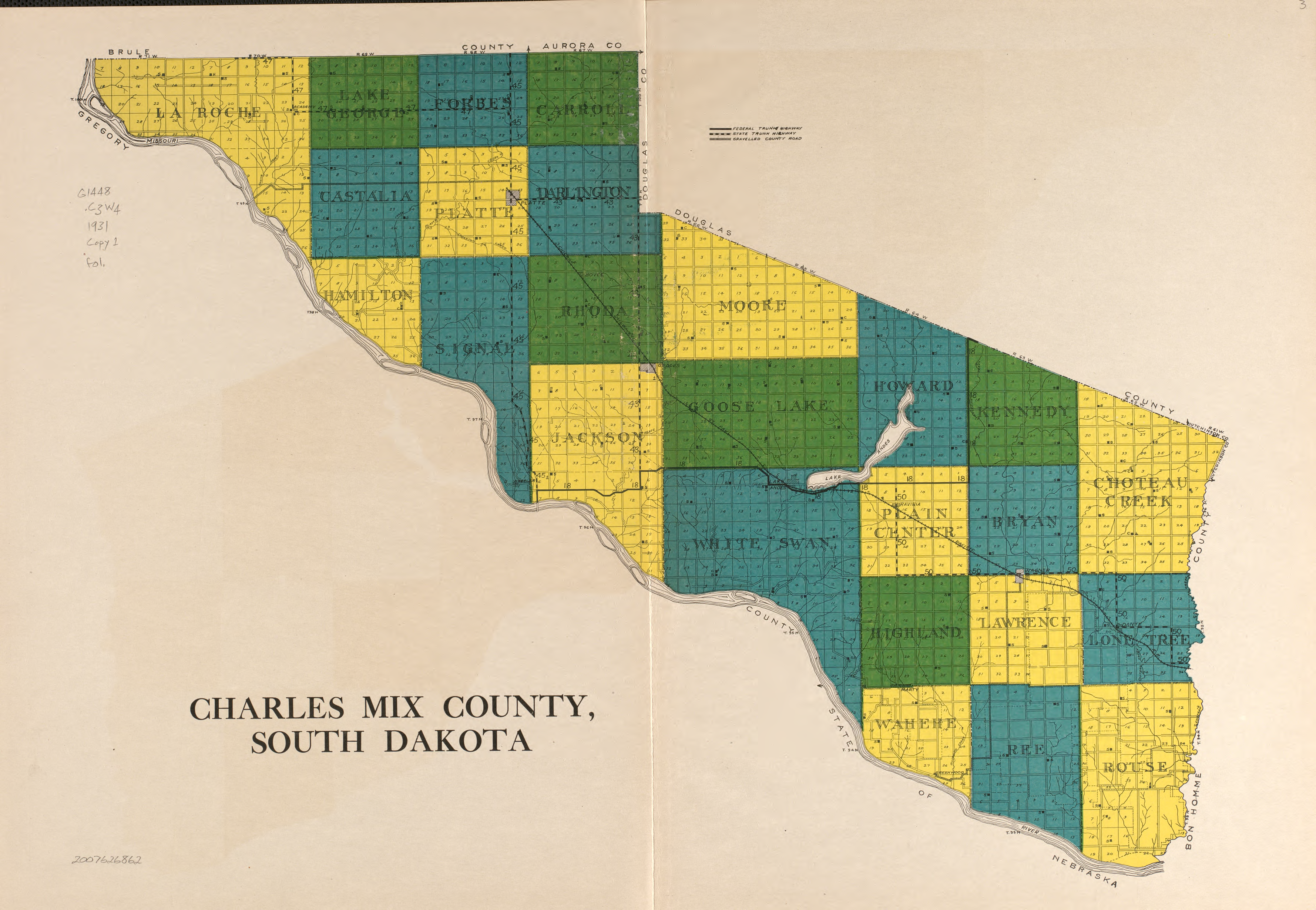 Atlas and farmers' directory of Charles Mix County, South Dakota. Map of Charles Mix County, South Dakota detailing its civil townships in 1931.